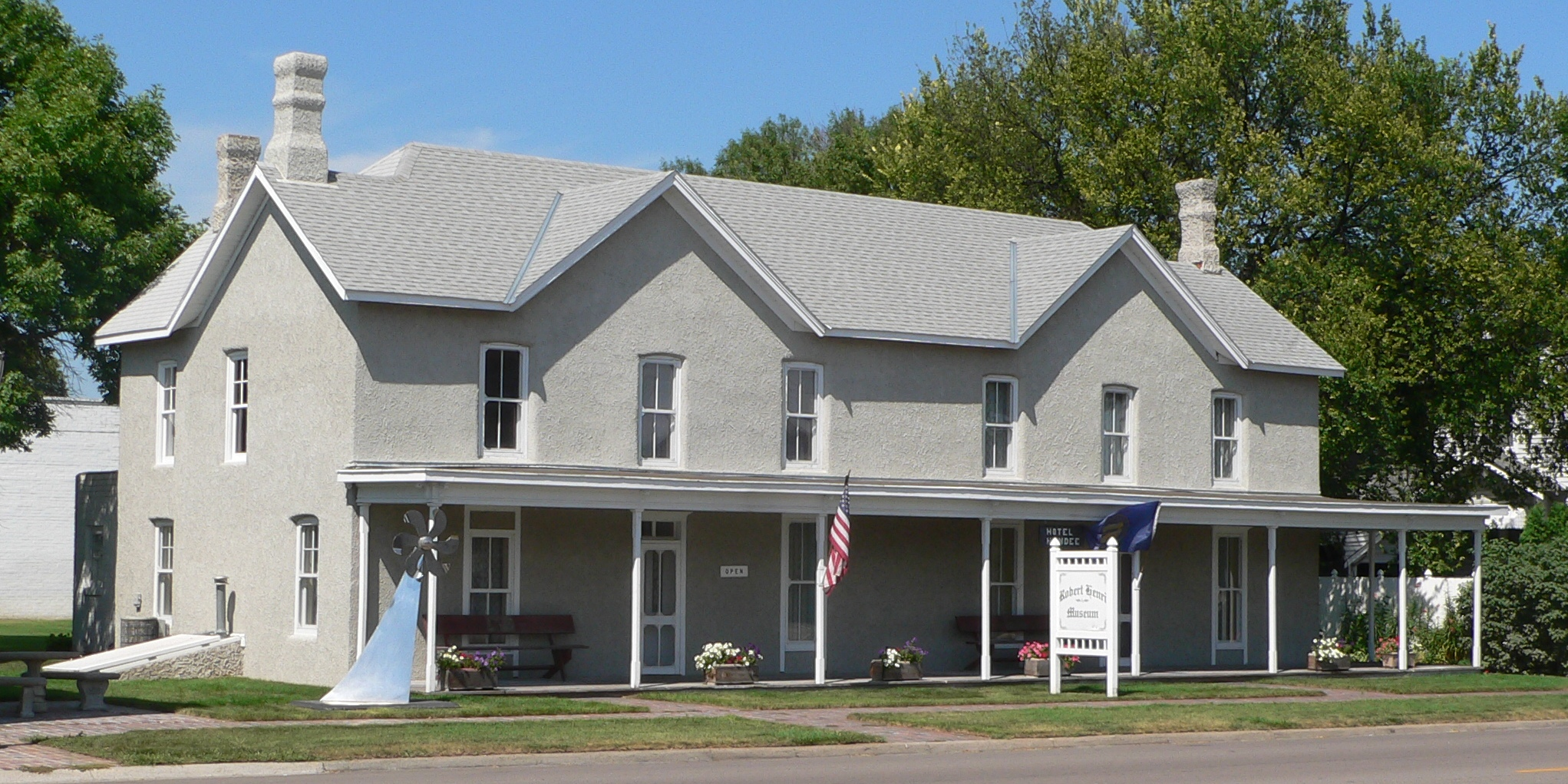 Hendee Hotel in Cozad, Nebraska; seen from the southwest. The building was constructed in 1879, and is listed in the National Register of Historic Places. It is now the Robert Henri Museum